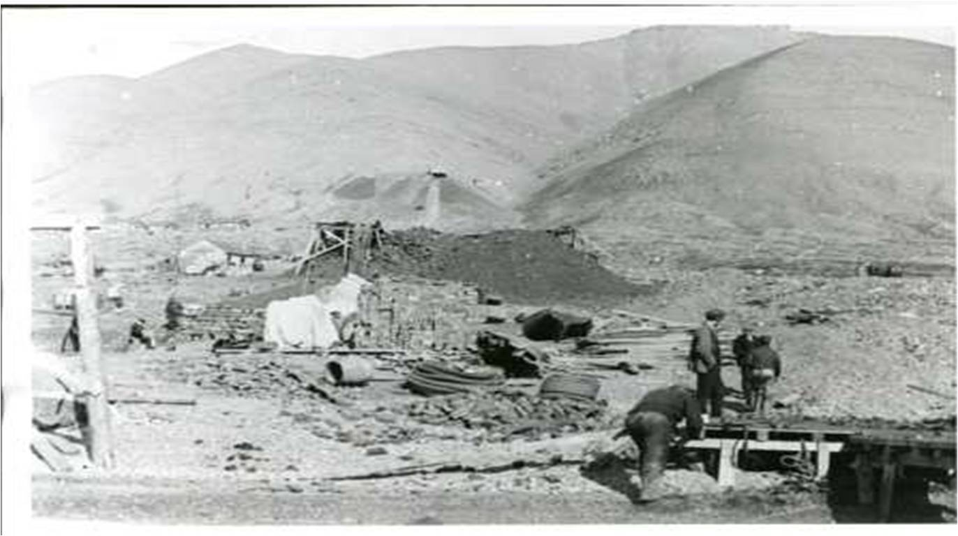 Image from the Svalbard Museum collection. Image of the Advent Bay coal mine area in 1905. Author unknown, from the collection of Fred Goldberg.